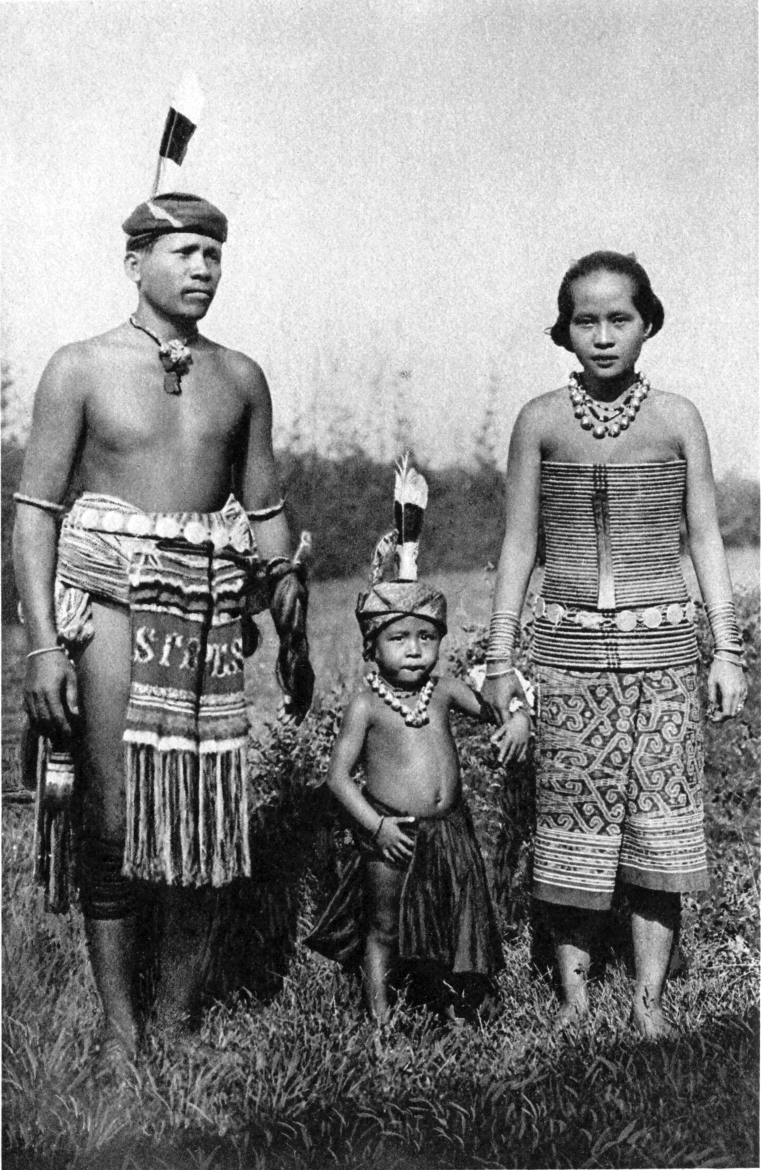 A man and a woman and a child of the Sea Dayak (Iban) people from Sarawak. She is wearing a rattan corset decorated with brass rings and filigree adornments.